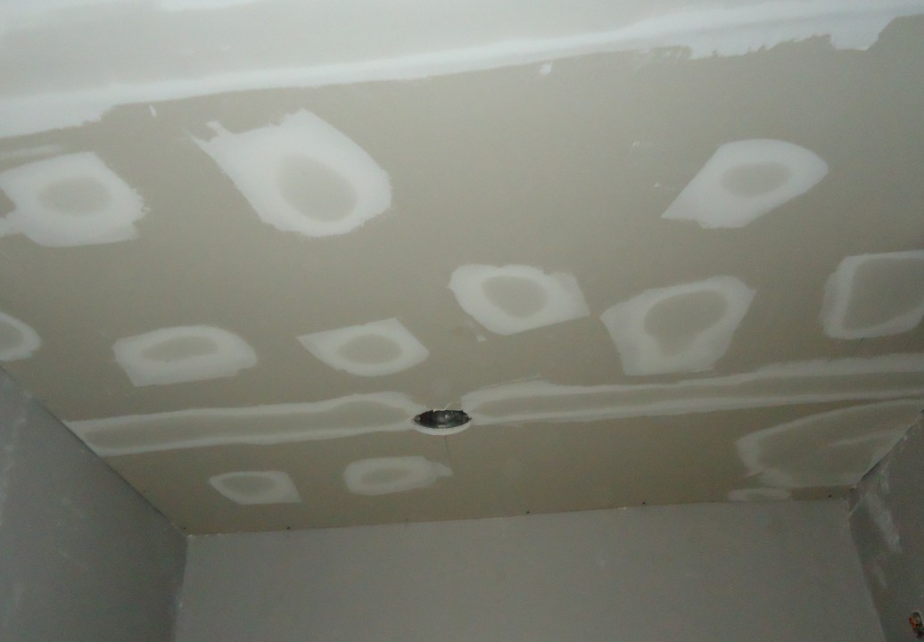 Spackling (blotchy areas) covers holes where screws were inserted, to hold up the sheetrock to the ceiling.